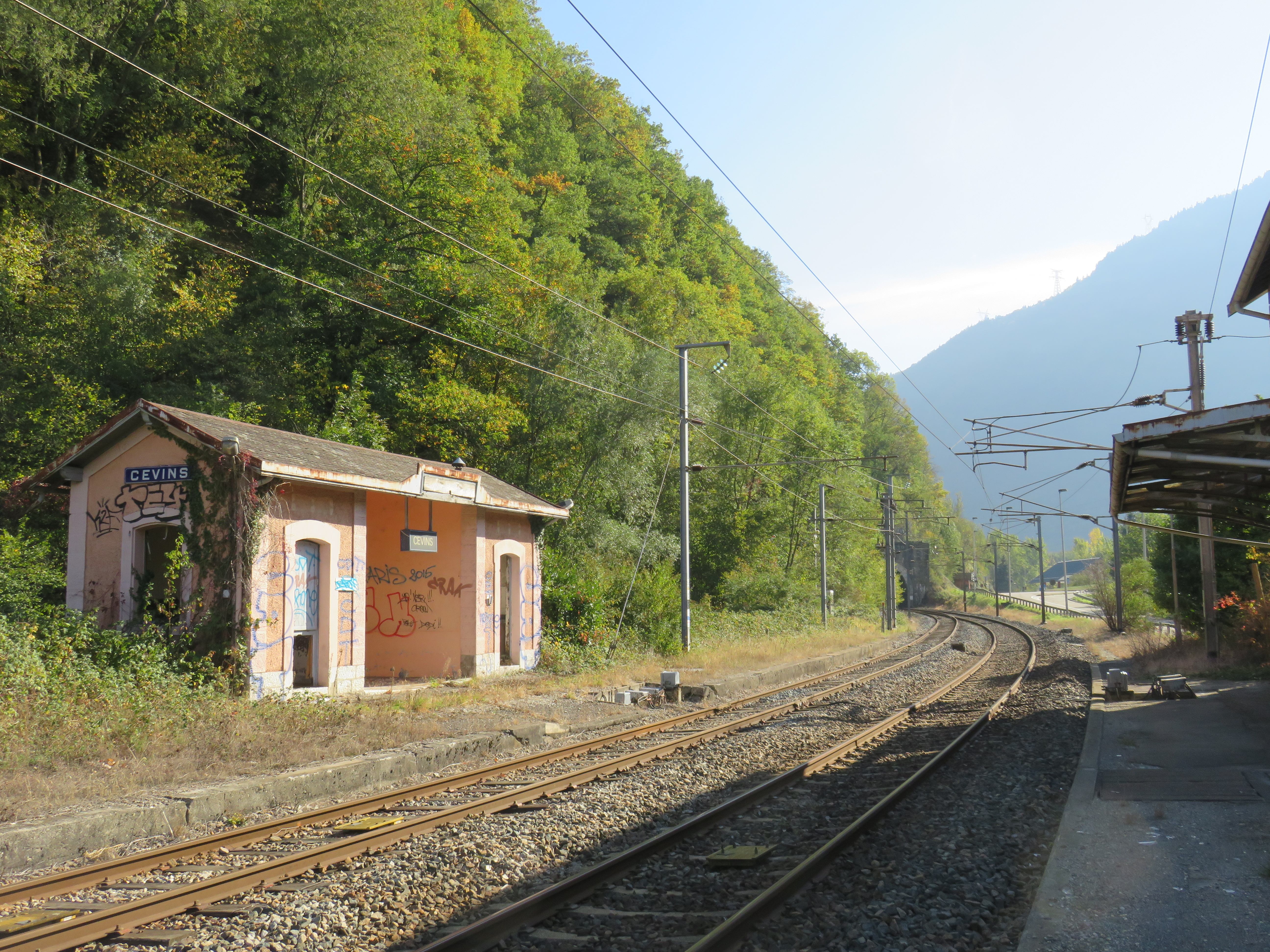 The tracks and platforms of the former train station of Cevins (Savoie, France) on October 18, 2018.